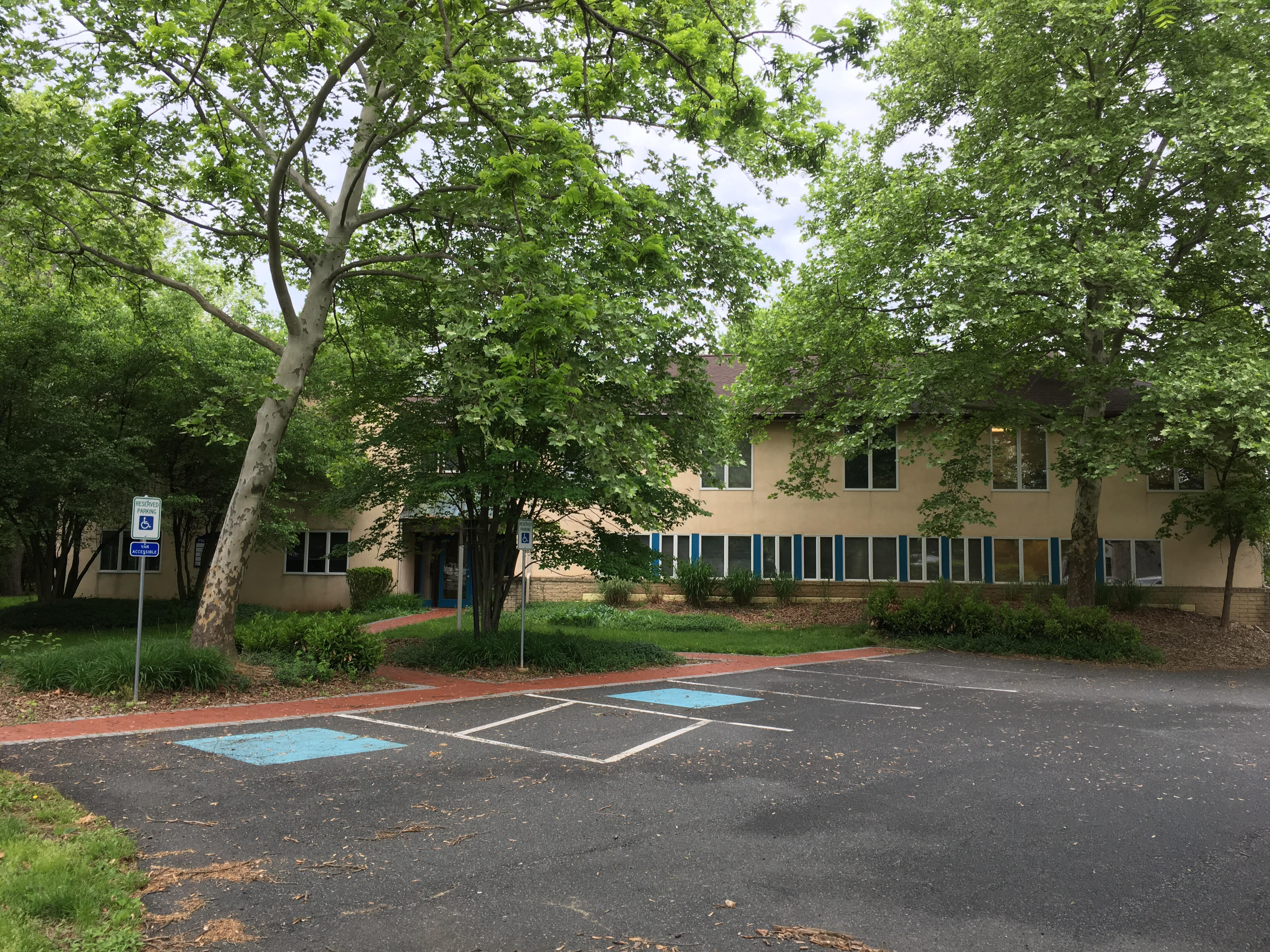 The Professional Building contains the bookstore, classrooms, and student lounge and study areas.